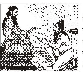 समाधी